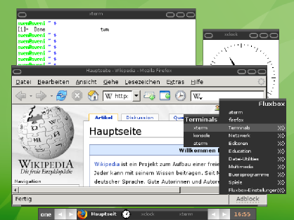 Programs with Fluxbox